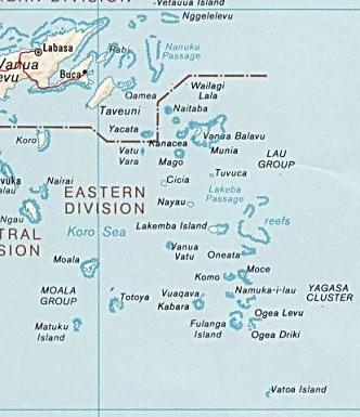 Lau Islands Map.